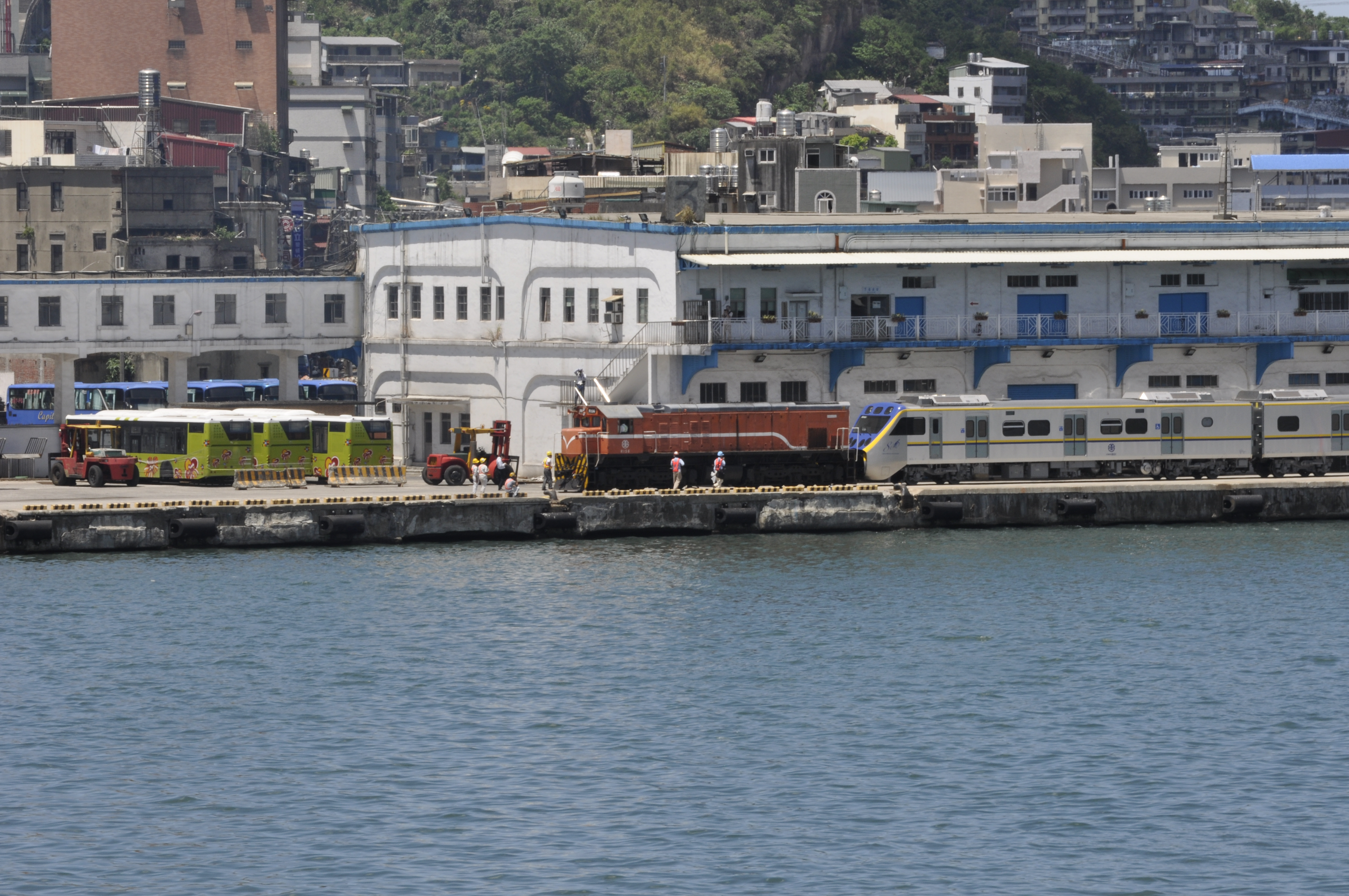 XMQ6120AGD5 and EMU800中文（台灣）: 大都會客運三陽金龍XMQ6120AGD5大客車和臺灣鐵路管理局EMU800型電聯車停在基隆港。